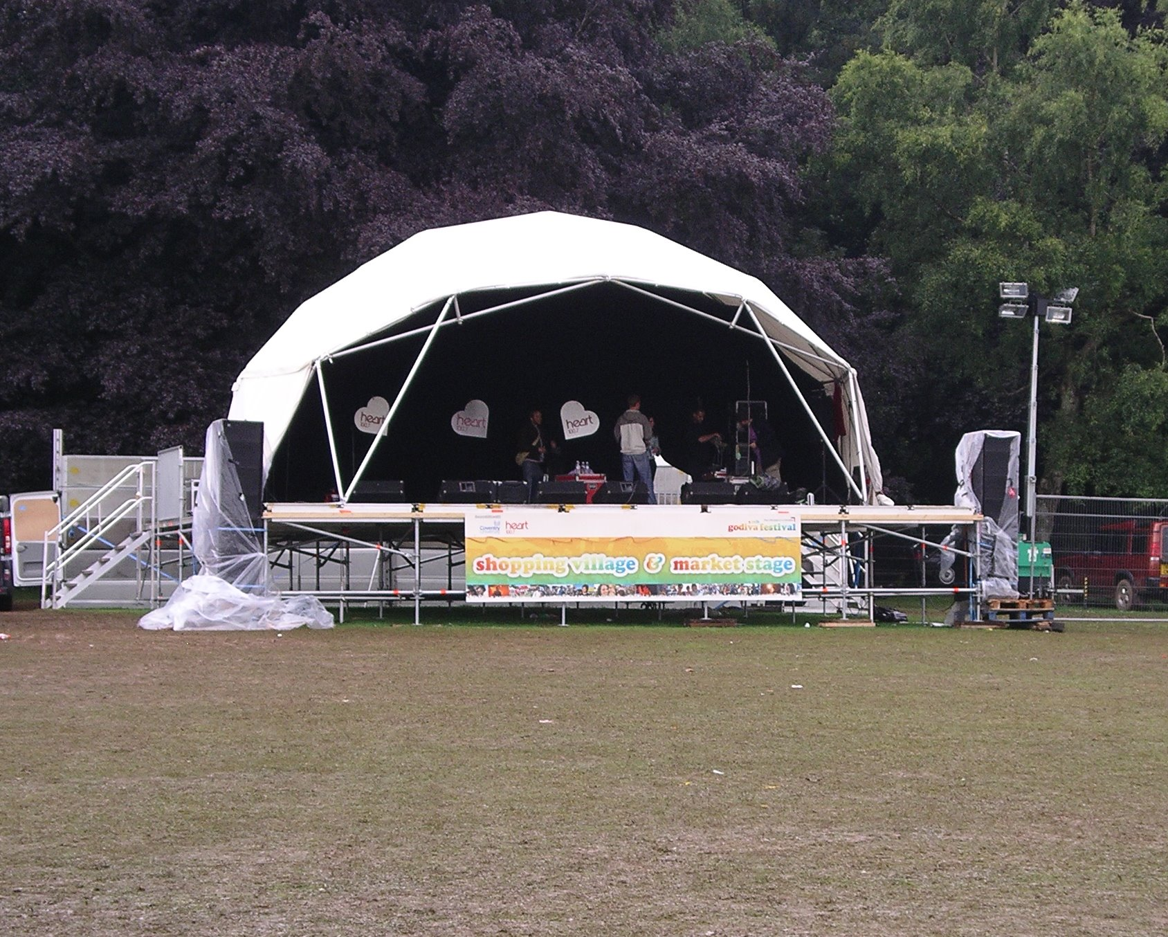 Photo of a stage at the Godiva Festival, Coventry, England. The photo was taken on Sunday evening 2007 shortly after the end of the festival.